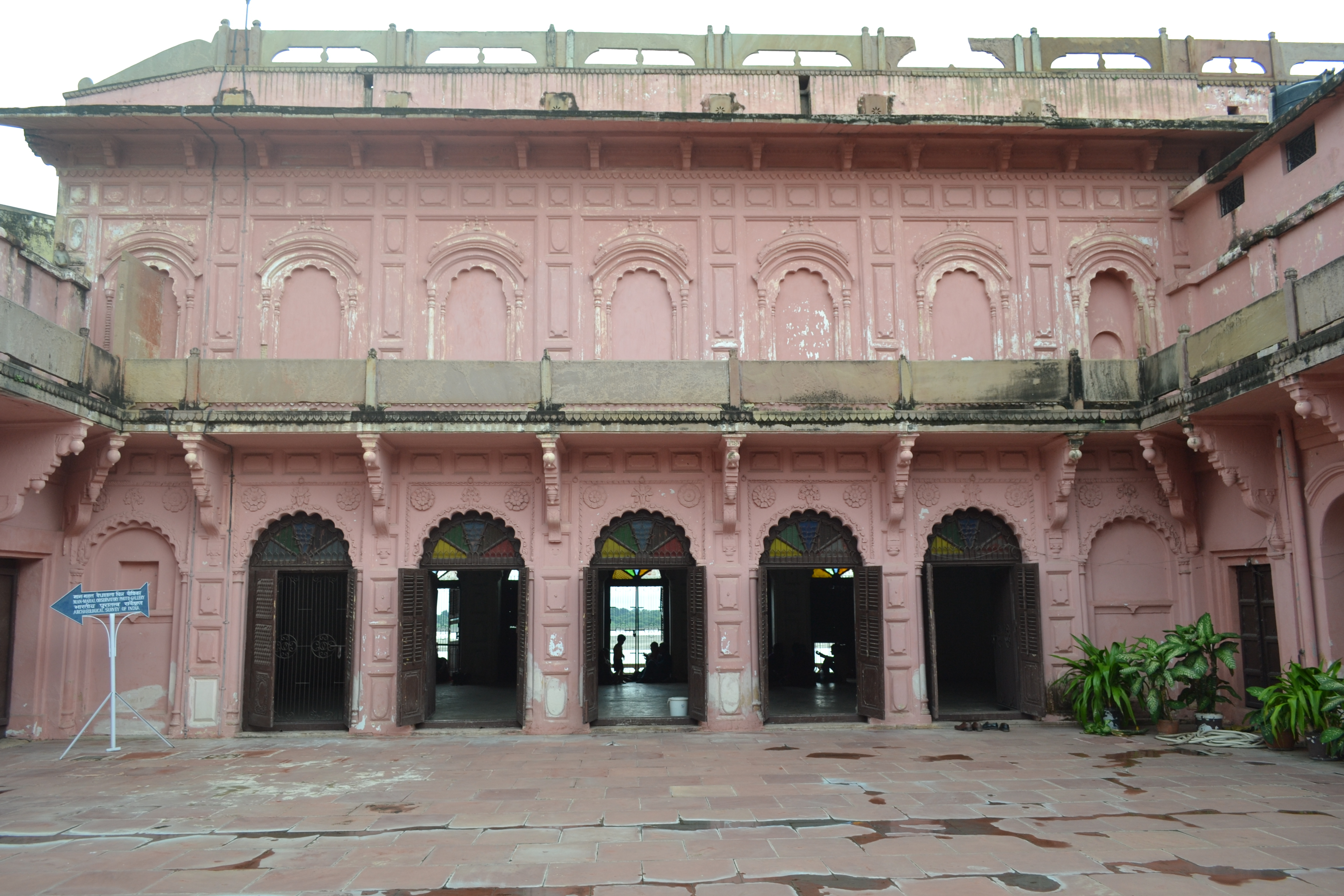 Observatory of Mansingh